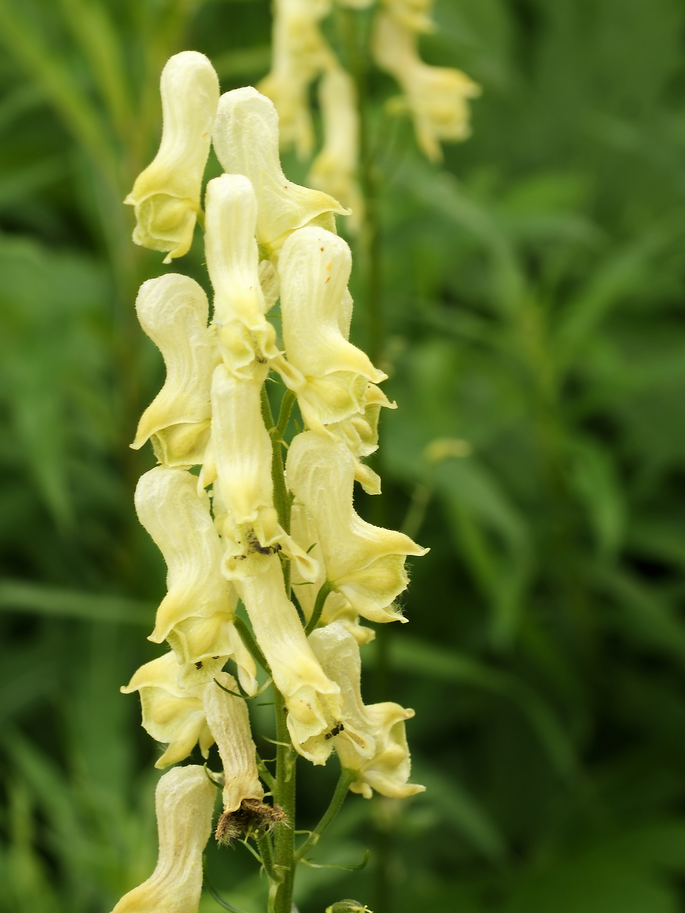 Northern Wolfsbane, at Saas Fee, Switzerland